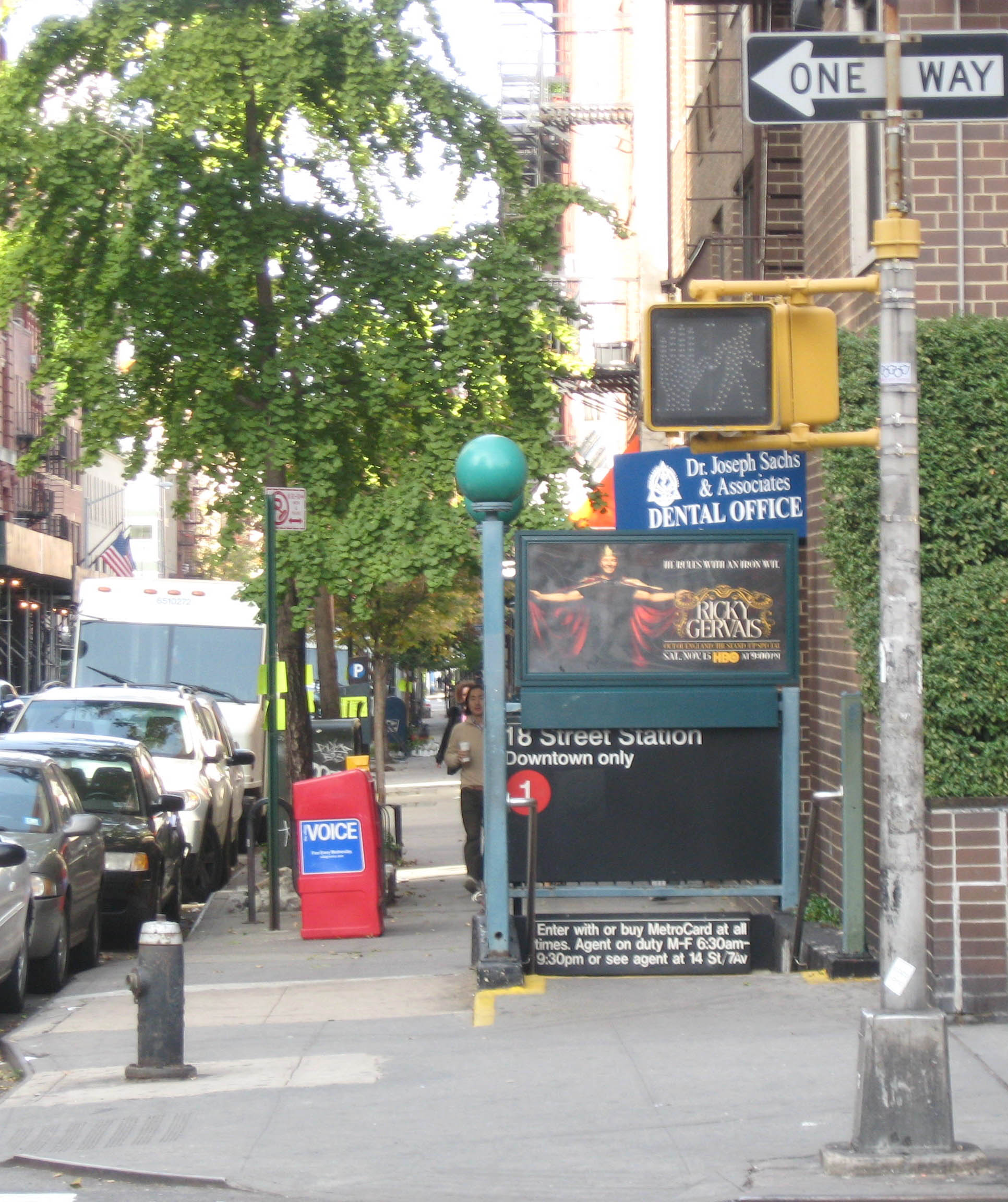 Looking west across 7th Avenue at 18th Street (IRT Broadway – Seventh Avenue Line) southbound street stair on a sunny late morning.